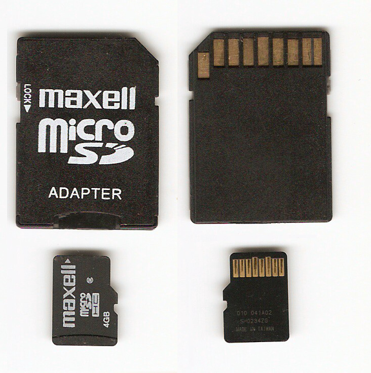 Picture of a MicroSD Card with its Adapter. Frontal and Back.